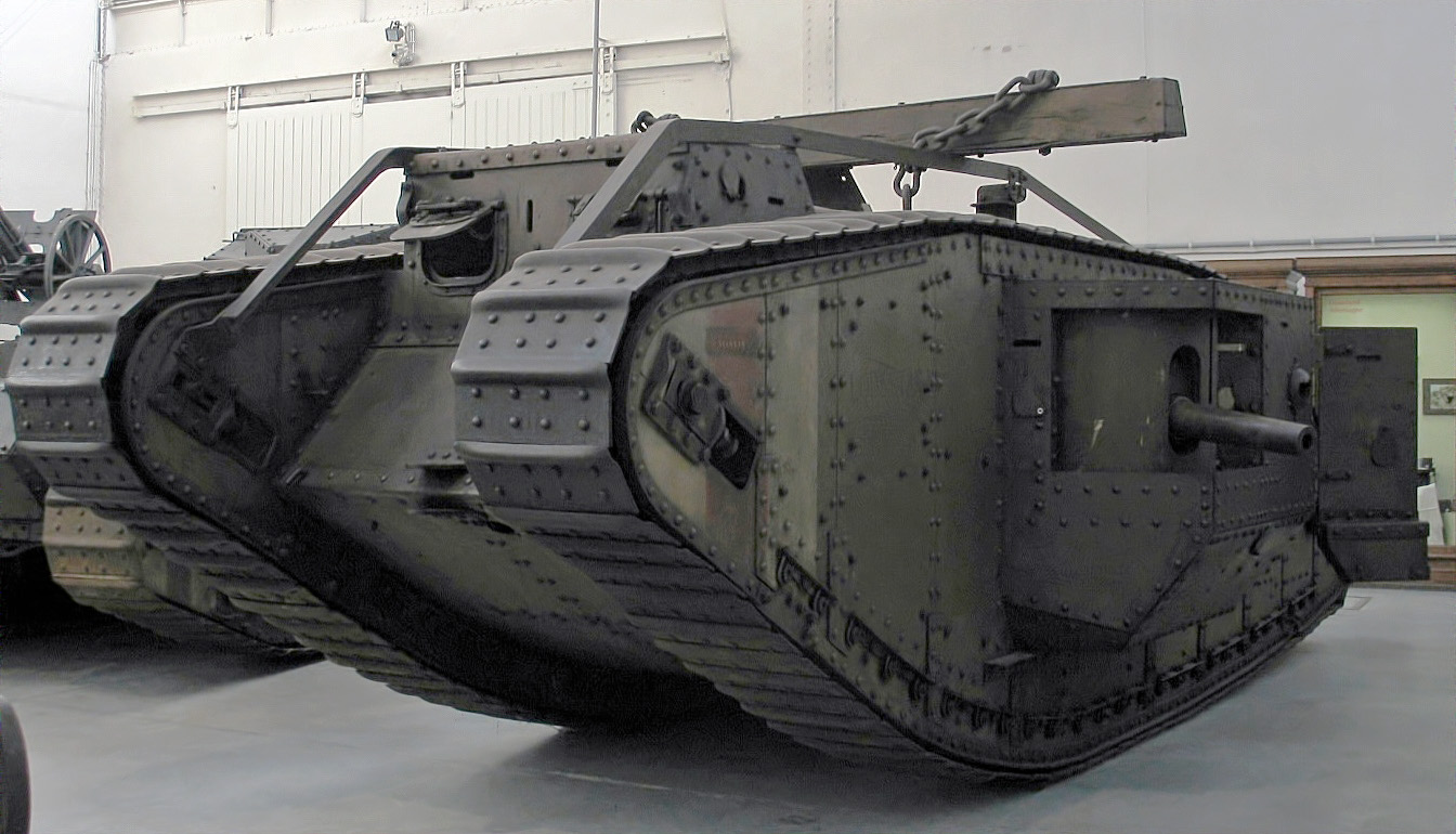 British Mk IV Male tank Lodestar III in original colours.